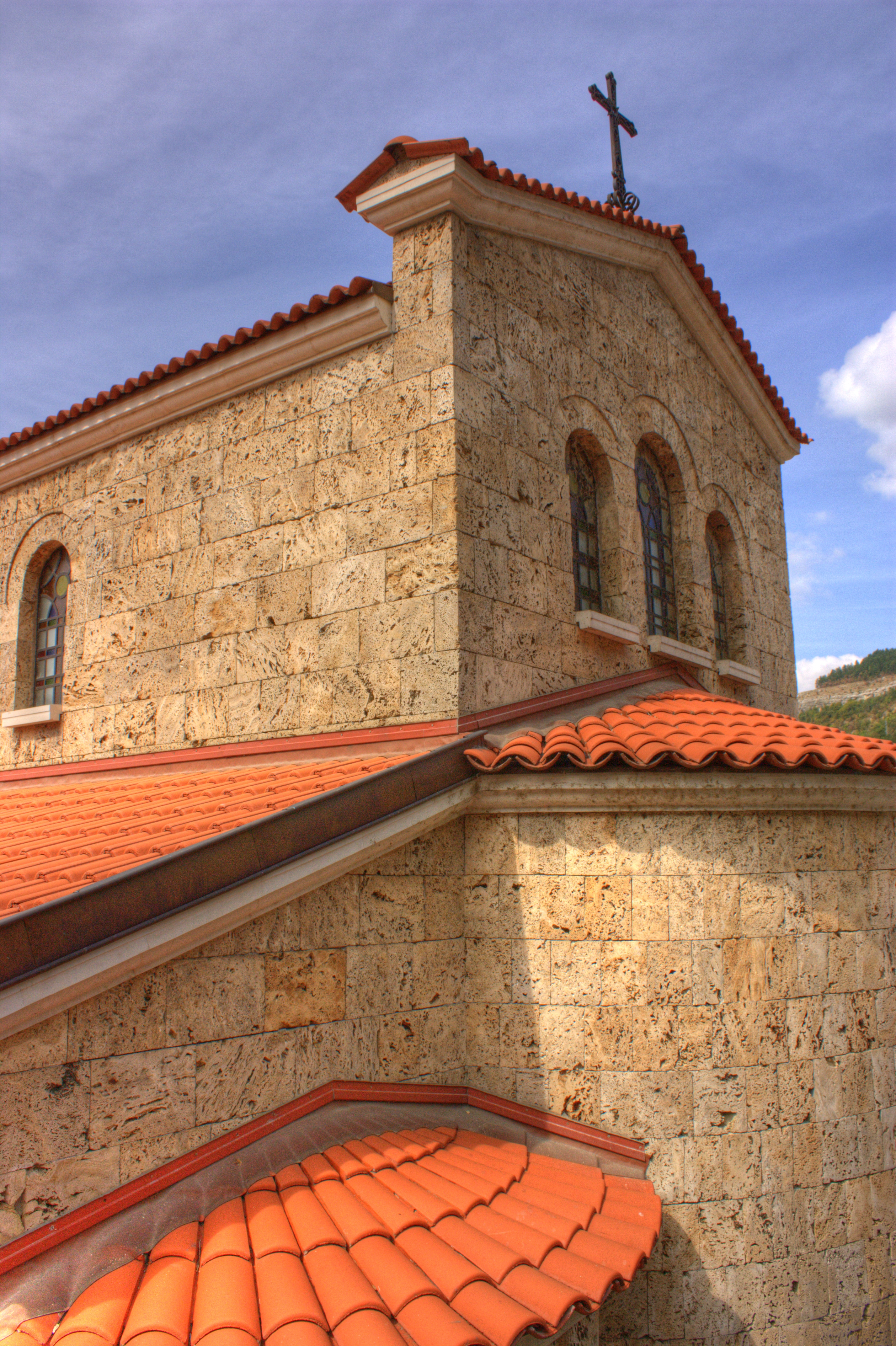 The SS. 40 Martyrs Church in Veliko Tarnovo, Bulgaria